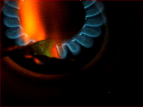 Tin(II) oxide burning in an aluminium foil tray. The dim green flame in the aluminium foil is the flame produced by the burning tin(II) oxide. The orange flames are produced by the aluminium and are not unique to any metal.